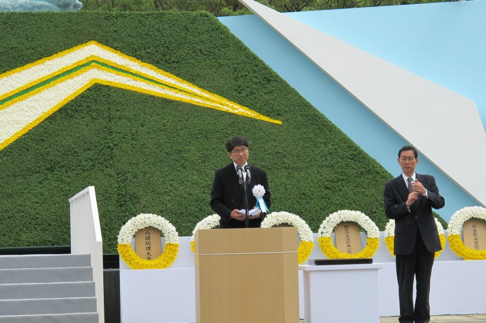 "Today there are over 19,000 nuclear weapons in the world. I ask you, what would happen to humanity if a modern nuclear weapon far more powerful than the atomic bombs dropped on Hiroshima and Nagasaki were to be used again?" Nagasaki Mayor Tomihisa Taue told those gathered at the ceremony. "To ensure that Nagasaki is the last city to be a victim of nuclear attack, it is essential to definitively ban not only the use of nuclear weapons but everything from their development to their deployment," Mayor Taue said. Photo by CTBTO